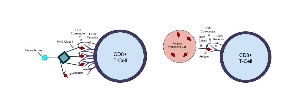 An MHC tetramer contains four MHC/peptide complexes that can bind to receptors on an antigen specific T-cell. A fluorescent molecule is attached to the tetramer for analysis of T-cells. MHC molecules are expressed by most cells in the body, and present peptides that T-cells can recognize and respond to.